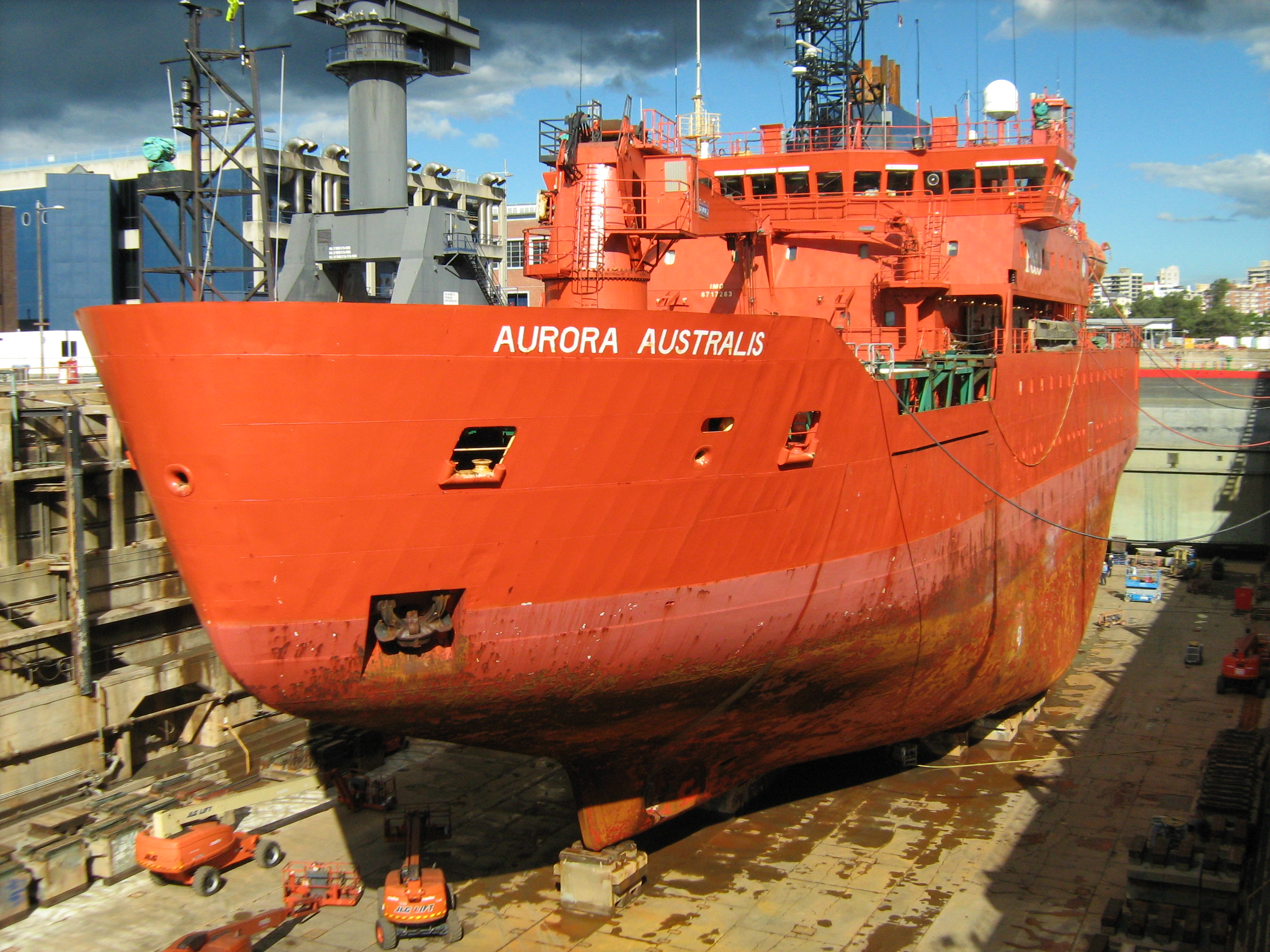 The icebreaker Aurora Australis in drydock at Woolloomooloo in Sydney